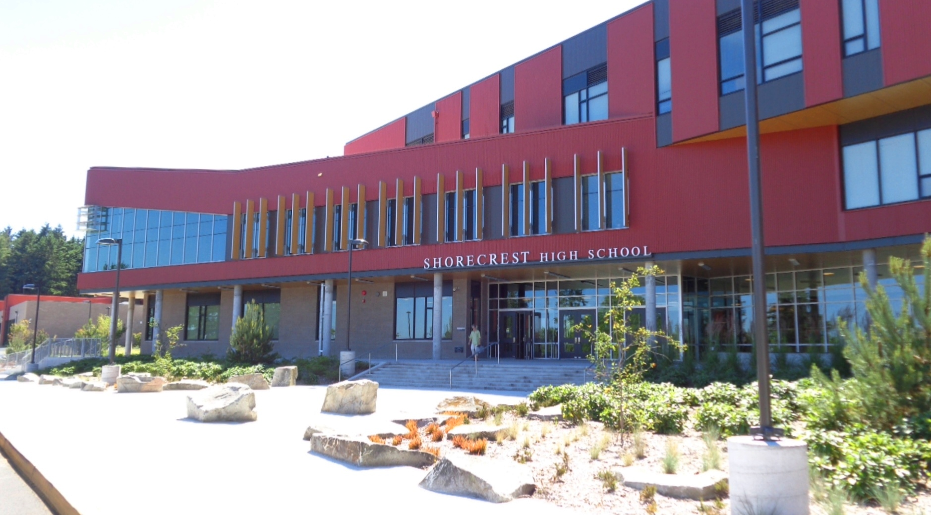 Main entry, Shorecrest High School, Shoreline School District. Shoreline, WA, USA